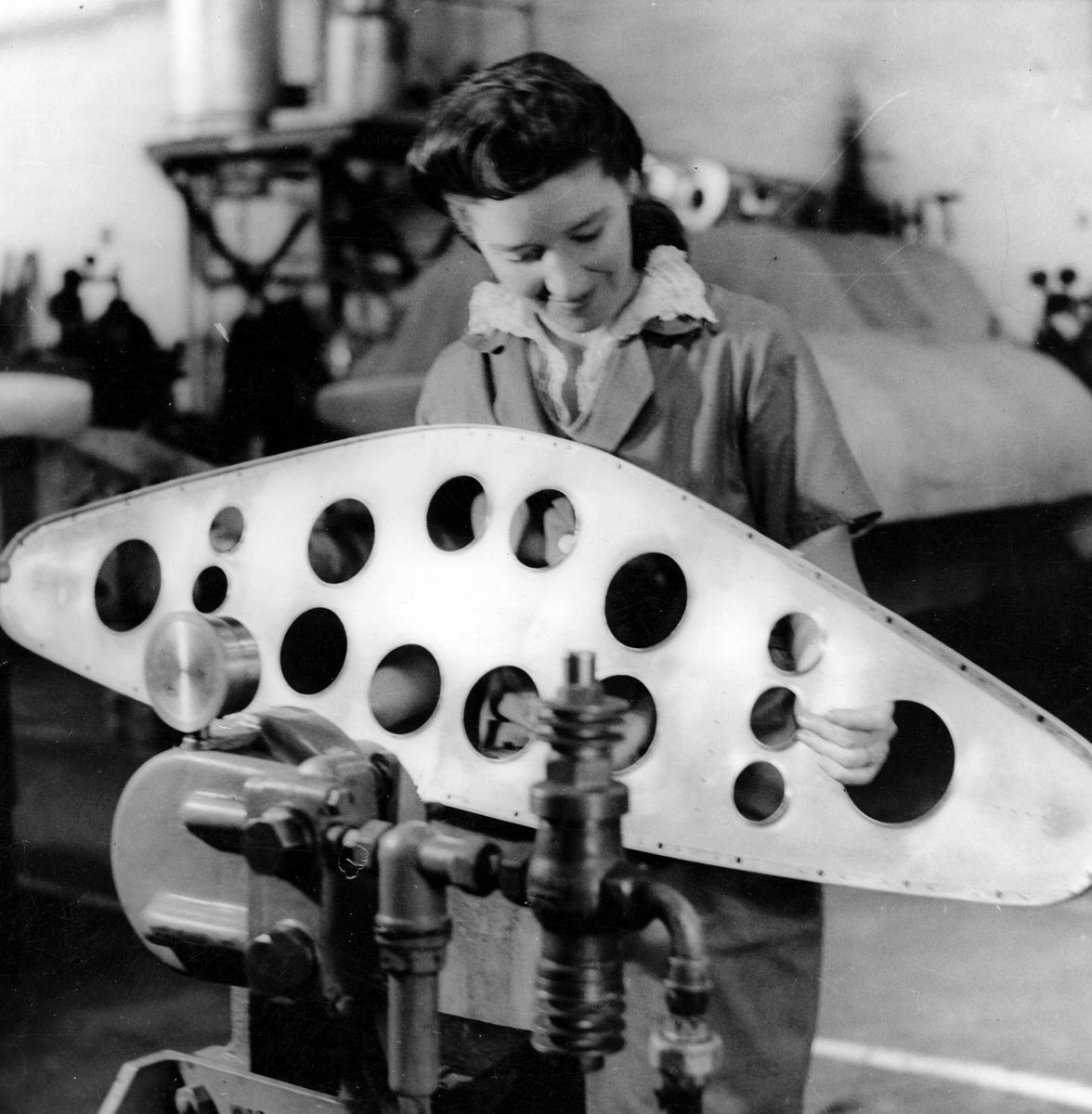 A young woman riveting ribs of a Beaufort bomber with an automatic machine in South Australia in 1943. Photographer: Smith, D. Darian